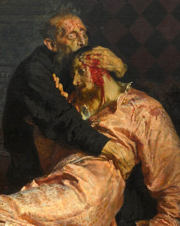 Ivan the Terrible and His Son Ivan on November 16th, 1581. Detail,as used in The Russian School of Painting (1916) by Alexandre Benois. Oil on canvas. The State Tretyakov Gallery, Moscow.